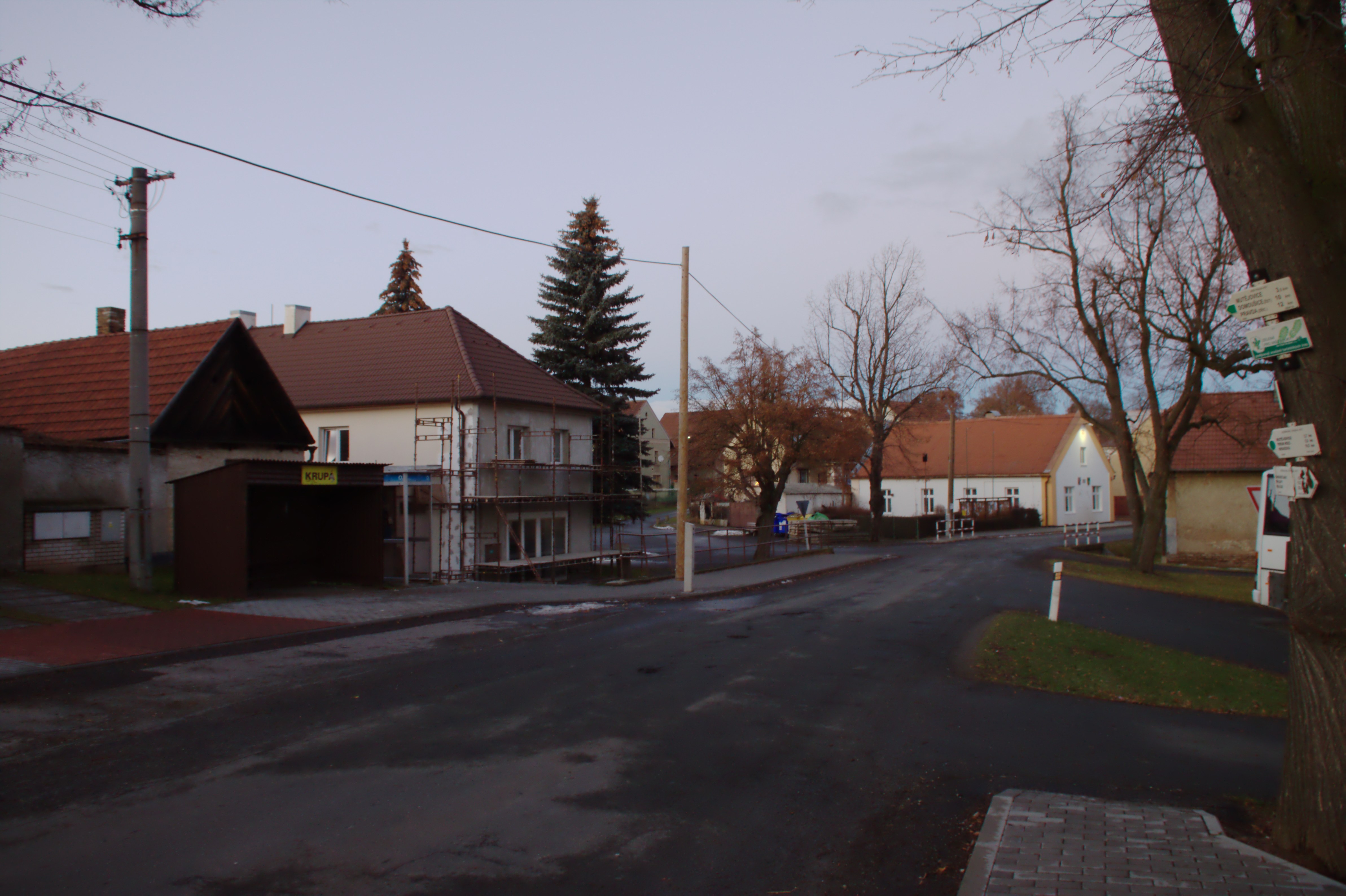 A common in Krupá, Central Bohemian Region, CZ